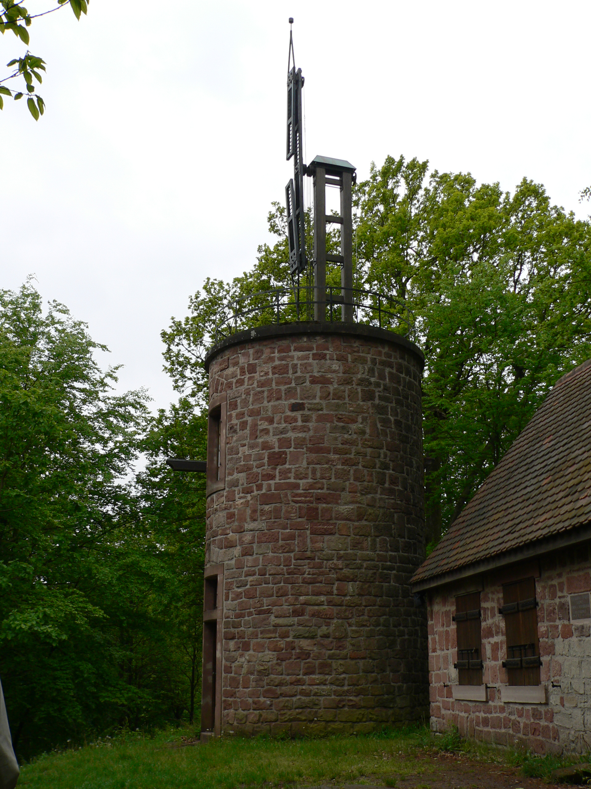 Optical semaphore telegraph near Saverne, France